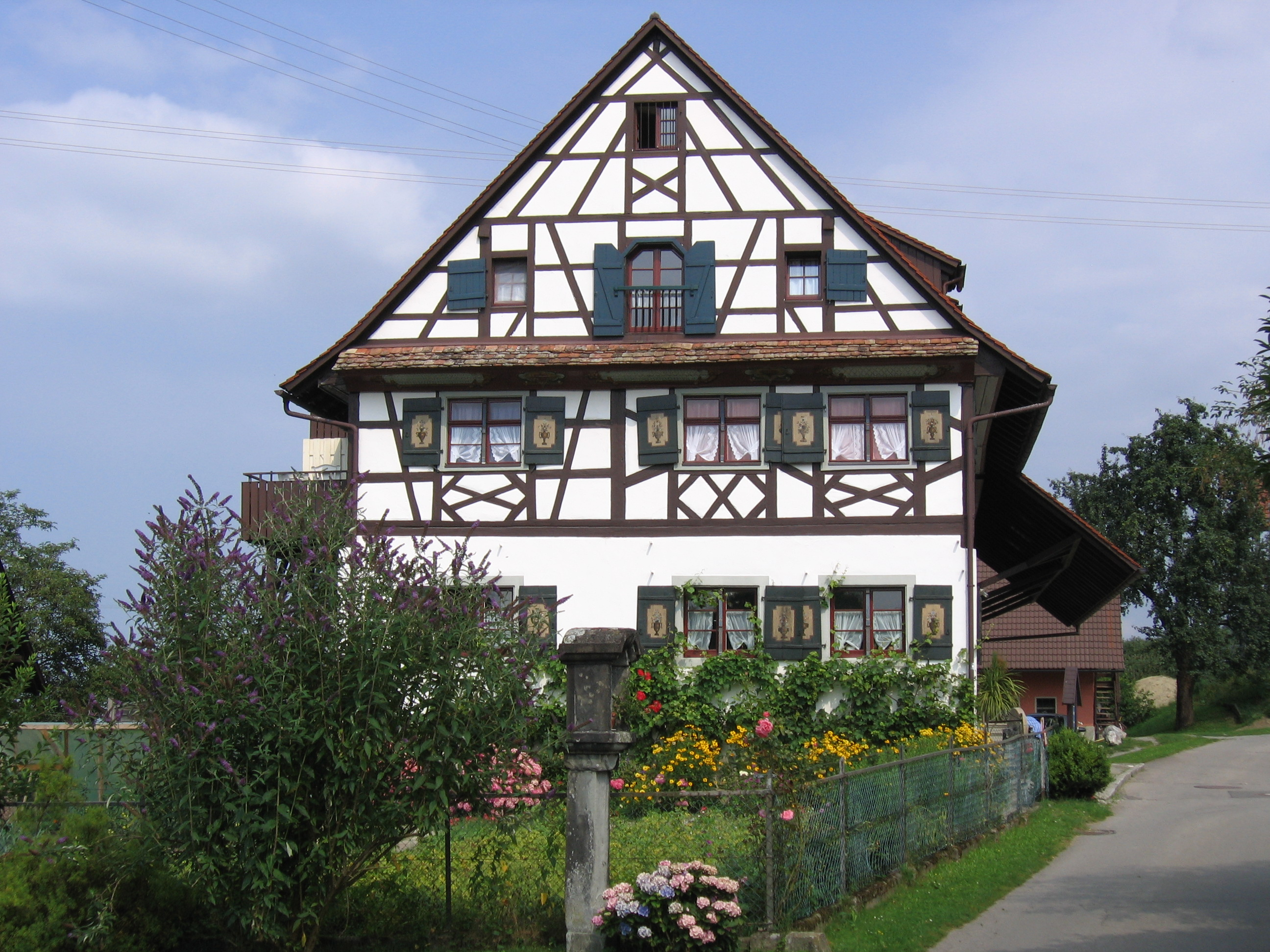 Germany - Baden-Württemberg - Bodenseekreis - Kressbronn am Bodensee - Retterschen, Backhausweg 15: timber framing